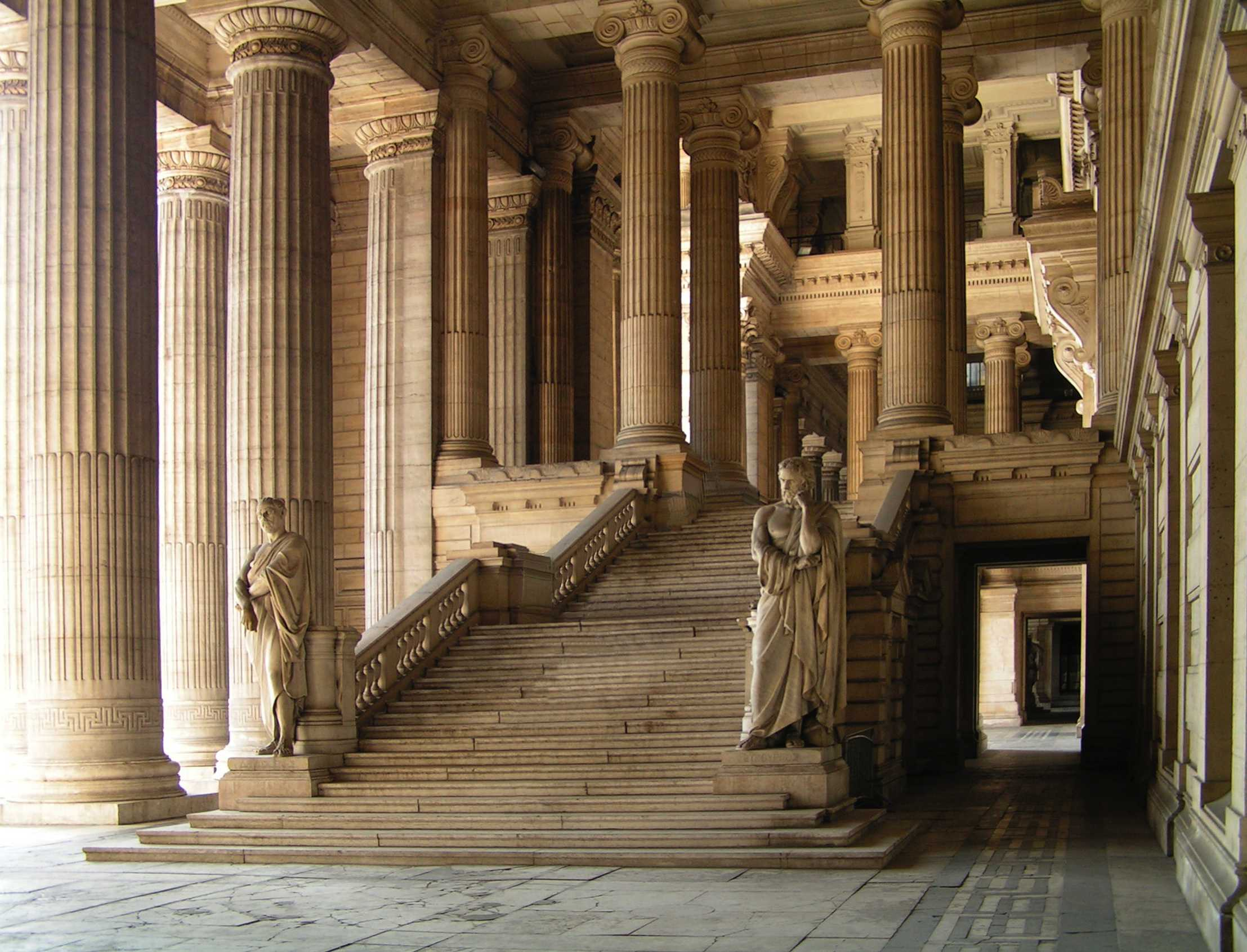 Palais de Justice de Bruxelles. Architecte : Joseph Poelaert (1817-1879) Contents 1 Source 2 Licensing 3 Licensing 4 Original upload log Source Photo de Roby ✉ 28 aoû 2004 à 05:12 (CEST) Licensing Architecture : Domaine public. Photo : GFDL